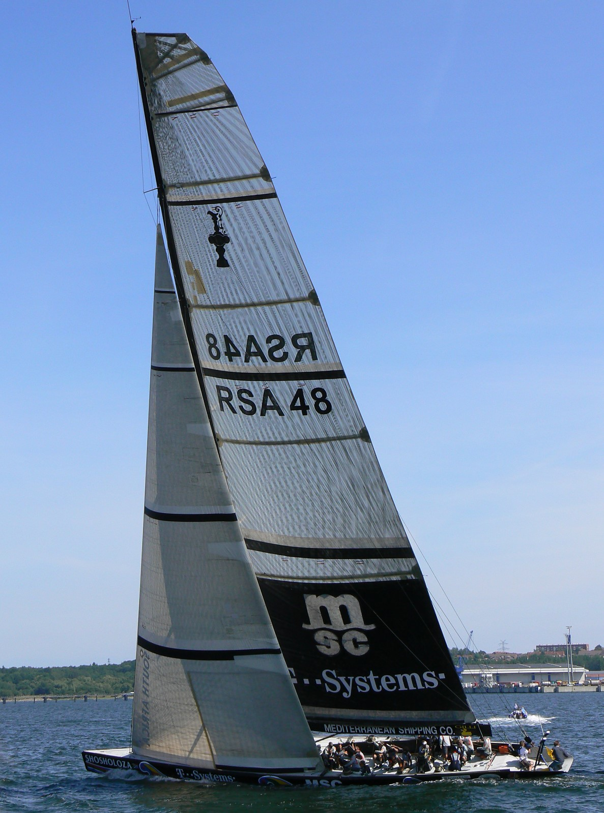 German Sailing Grand Prix Kiel 2006. Team Shosholoza.